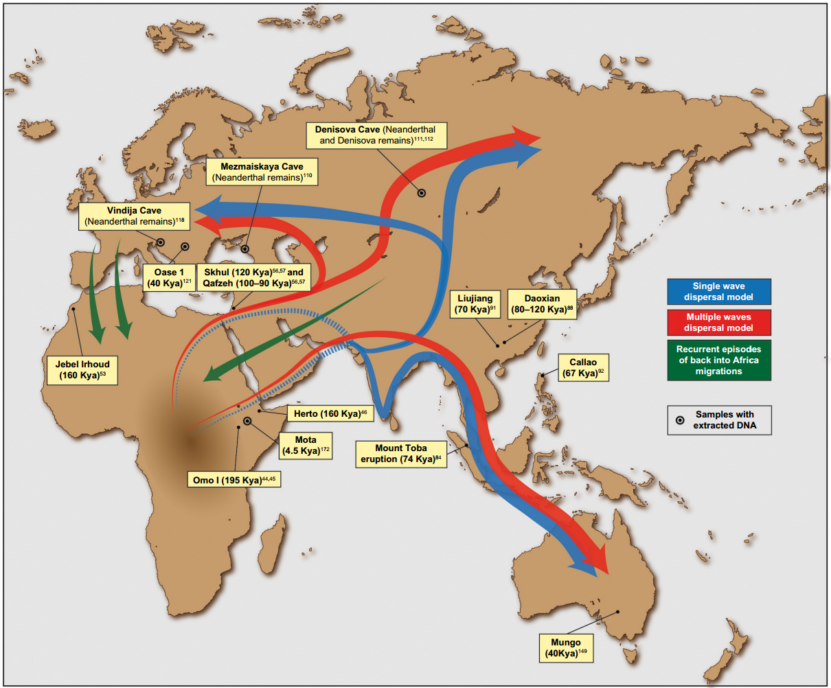 Putative migration waves out of Africa and location of some of the most relevant ancient human remains and archeological sites. The placement of arrows is indicative.